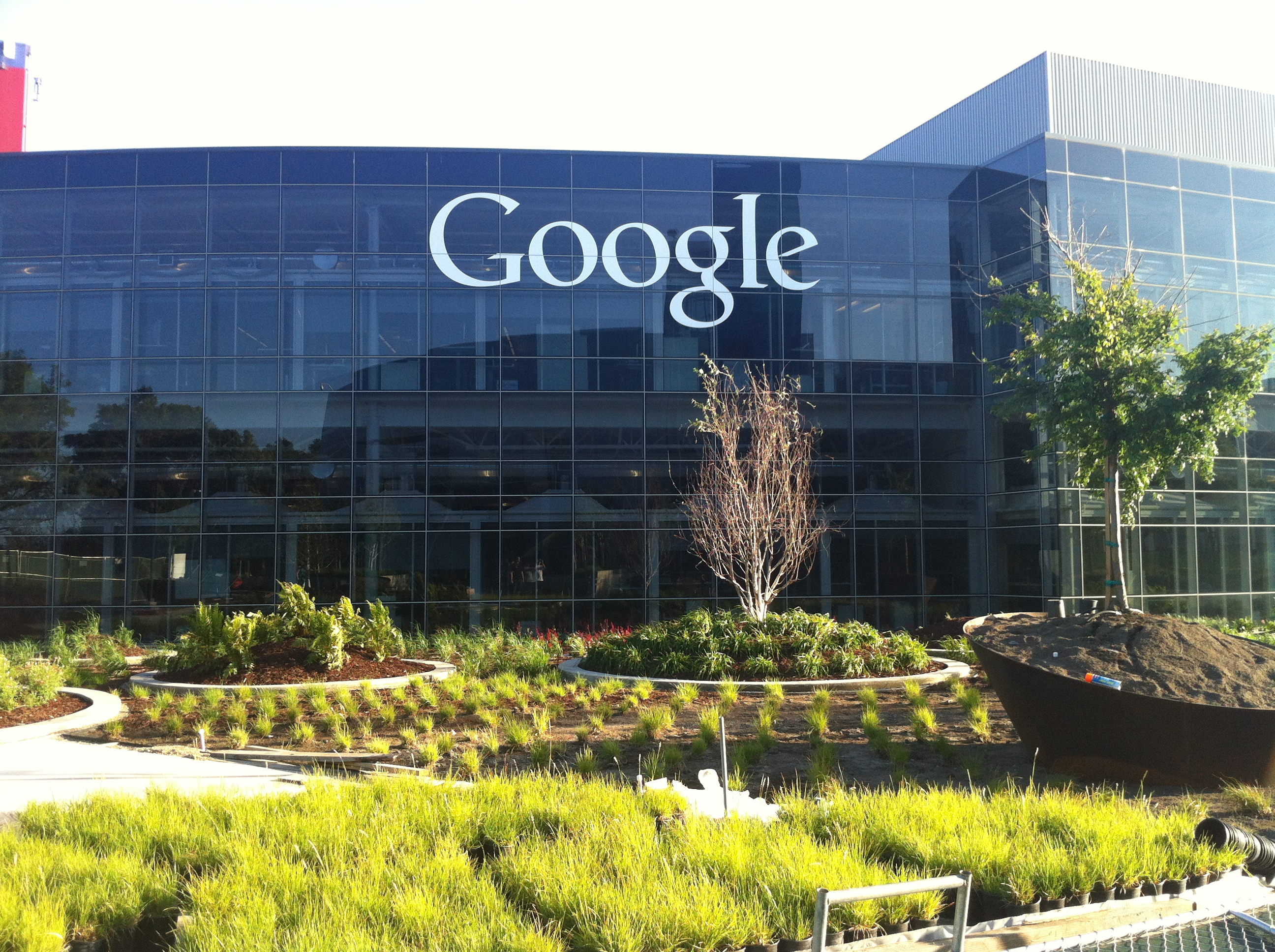 Google Mountain View California